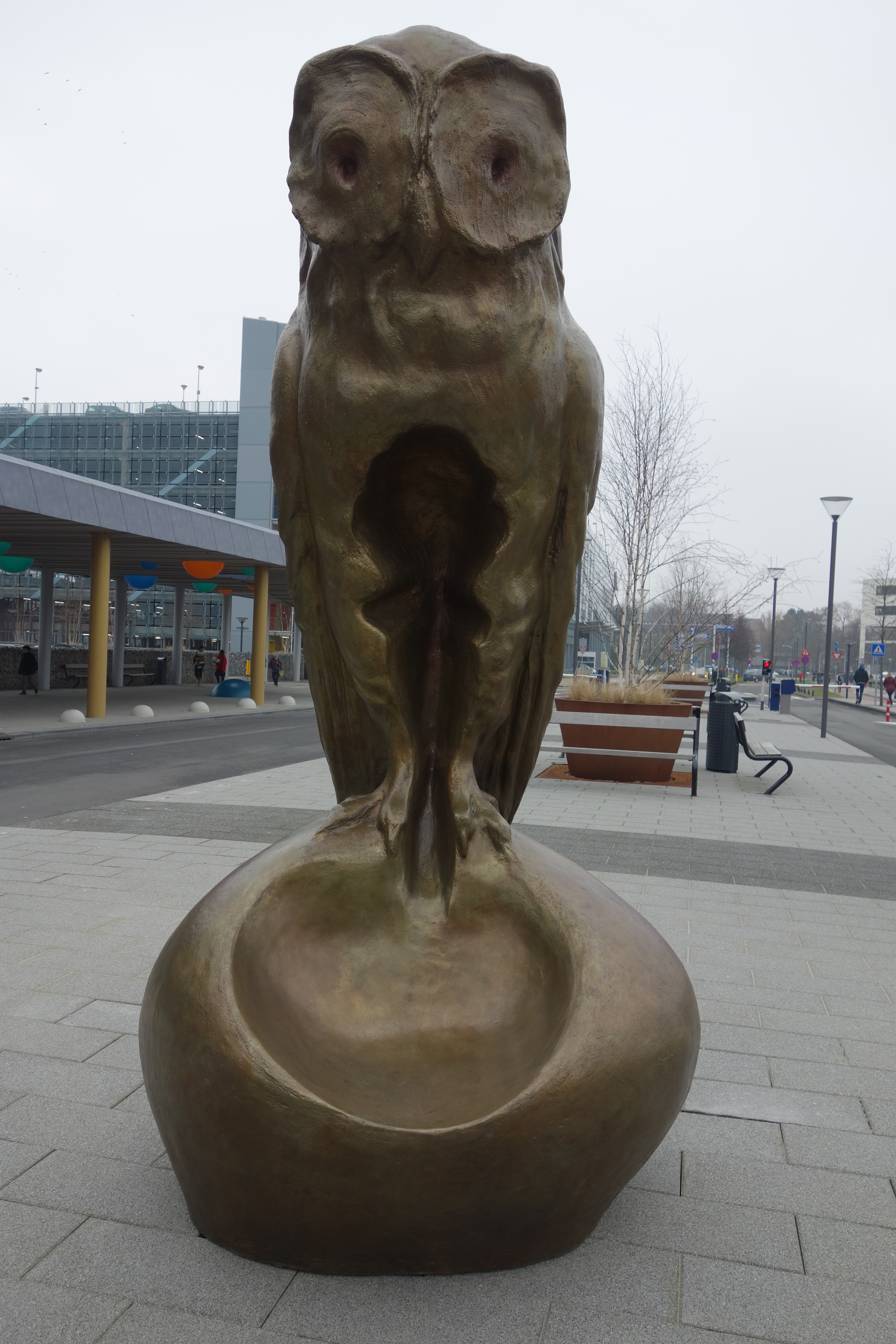 Statue "Le Grand Vivisecteur" by Johan Creten (made in Paris, 2016). Placed at LUMC, Leiden (the Netherlands)